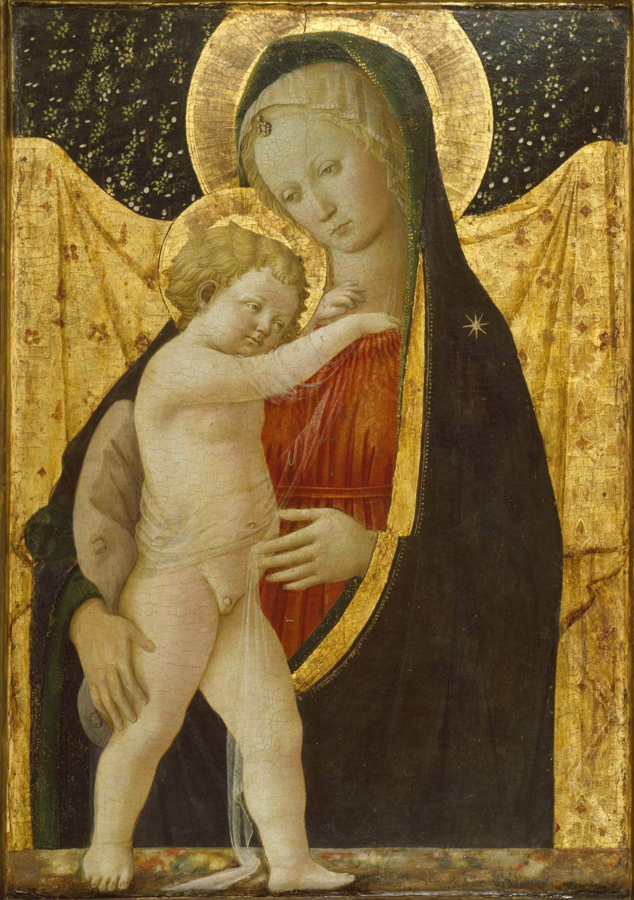 This tender devotional image of the Madonna and Child before a golden curtain still has its original frame, the classical shapes of which demonstrate the Renaissance fascination with antiquity. The frame looks like an architectural opening that has cut off the top of the Virgin's halo. Inscribed along its base in Latin are the words spoken to Mary by the archangel Gabriel, which were also a popular prayer: "Hail Mary full of grace. The Lord is with thee." The star on the Virgin's blue robe alludes to her epithet of Stella maris, the Star of the Sea. Filippo Lippi, a Carmelite friar, was one of the leading painters of 15th-century Florence. He was famous for his innovative naturalism and had many pupils, the most important of whom was Sandro Botticelli (1444/45-1510). For more information on this painting, please see Zeri catalogue number 44, pp. 73-74.